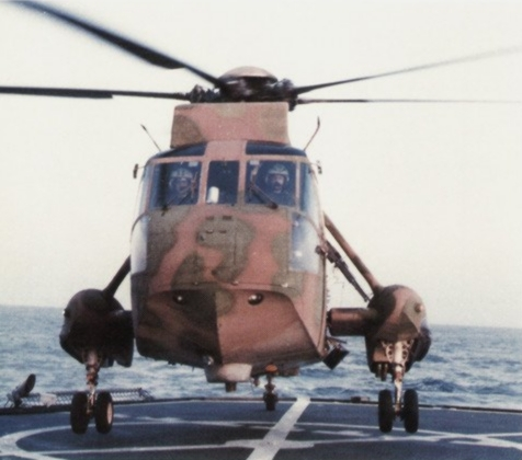 A U.S. Navy Sikorsky SH-3H Sea King from Helicopter Anti-Submarine Squadron HS-11 "Dragon Slayers" landing aboard a destroyer. HS-11 was assigned to Carrier Air Wing 1 (CVW-1) aboard the aircraft carrier USS America (CV-66) for a deployement to the Mediterranean Sea from 10 March to 14 September 1986. During that deployment, America took part in operations "Attain Document III" (23 to 29 March) and "El Dorado Canyon" (15 April) against Libya. Note that this helicopter wears a non-standard sand-coloured camouflage. HS-11 operated a detachment from the destroyer USS Peterson (DD-969) during that period, obviously for Combat Search and Rescue operations.